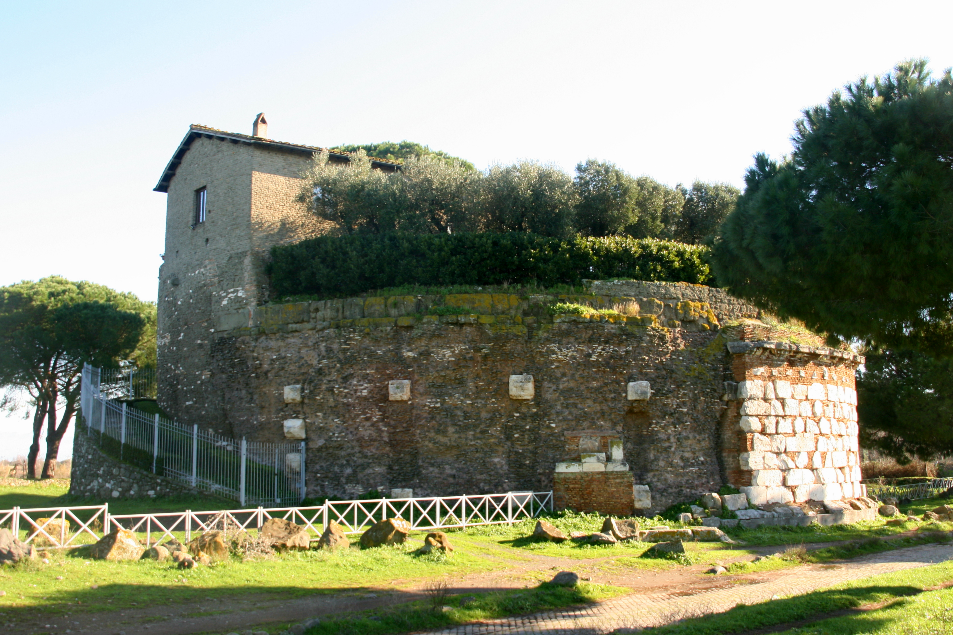 The Casal Rotondo on Rome's Appian Way